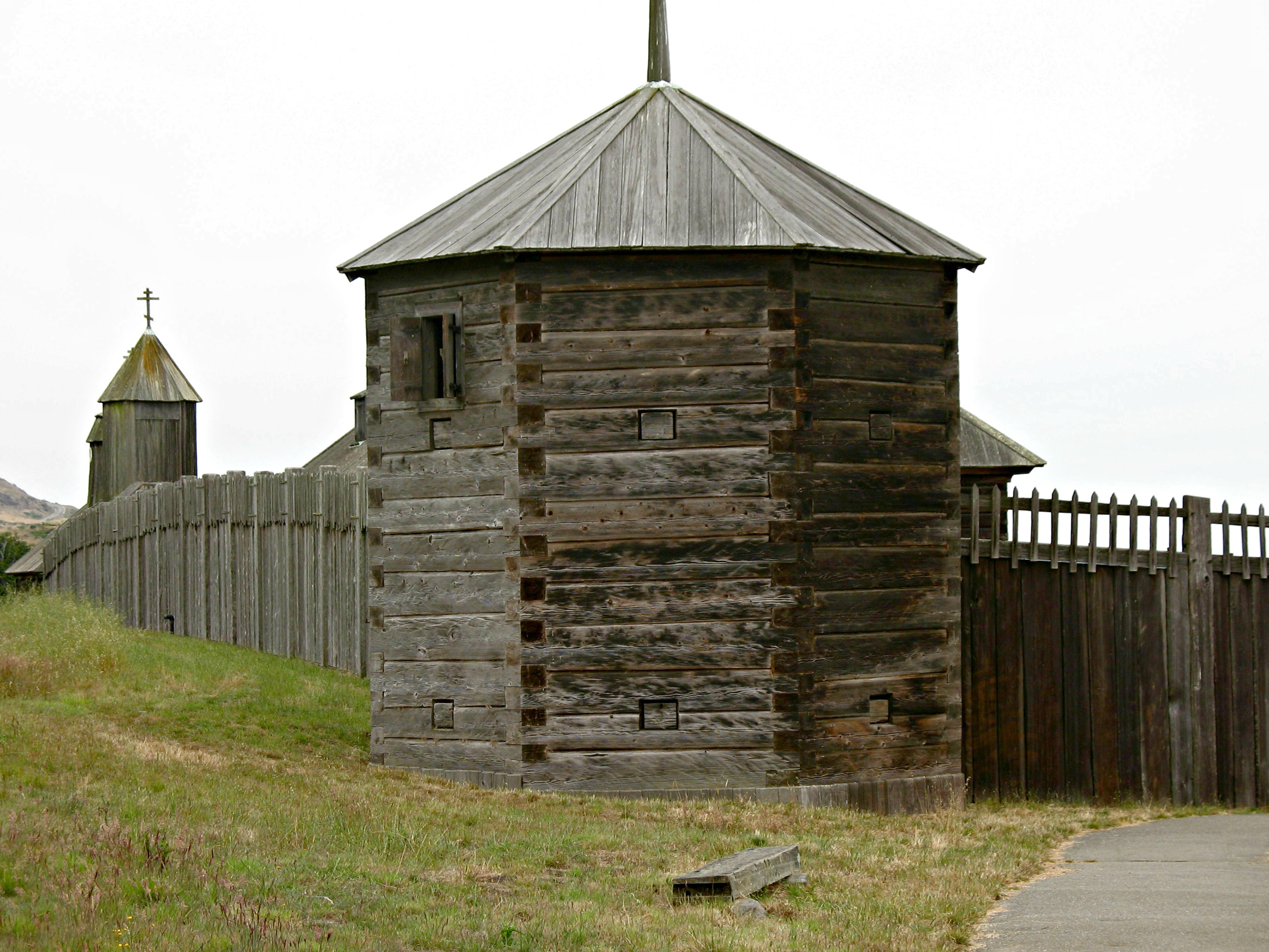 One of the structures in the all-wood Fort Ross.